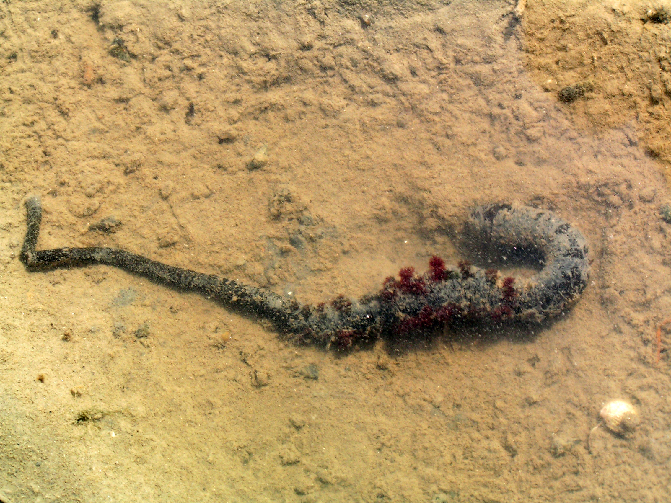 An old Lugworm in the Nationalpark Schleswig-Holsteinisches Wattenmeer, Germany, July 2006